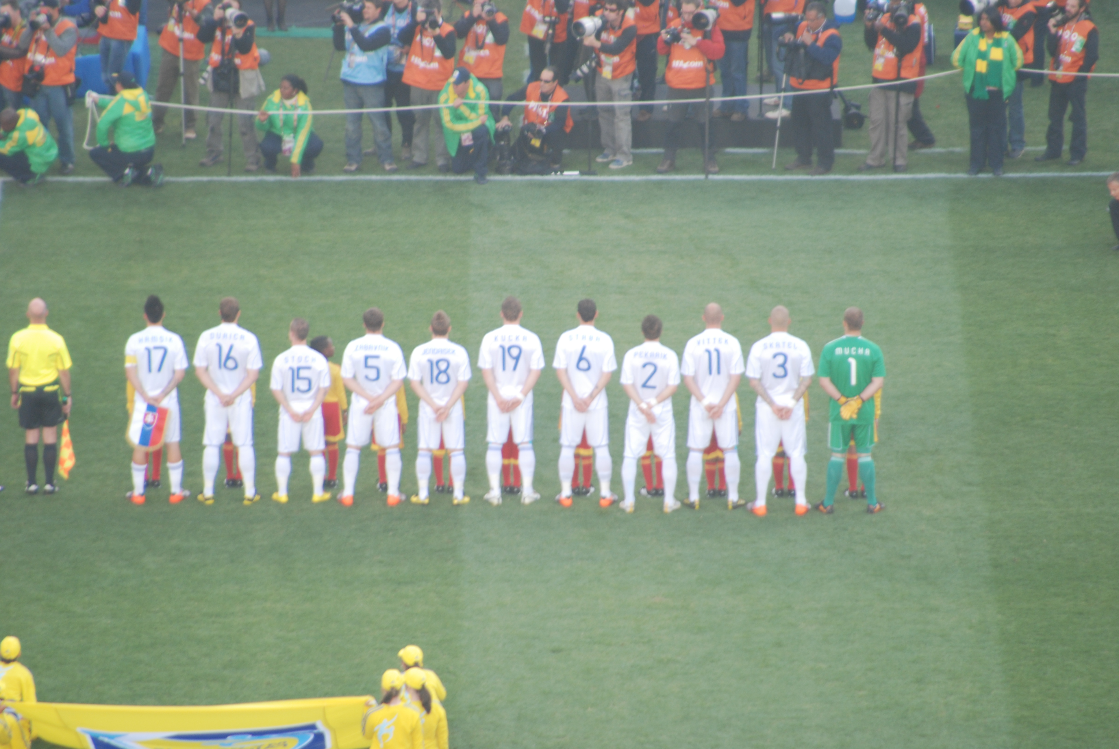 Slovakia national football team before match against Italy